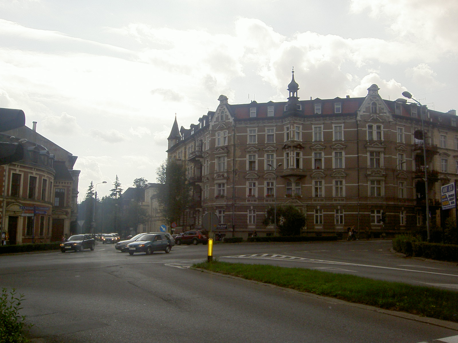 Władysław Jagiełło square in Kłodzko